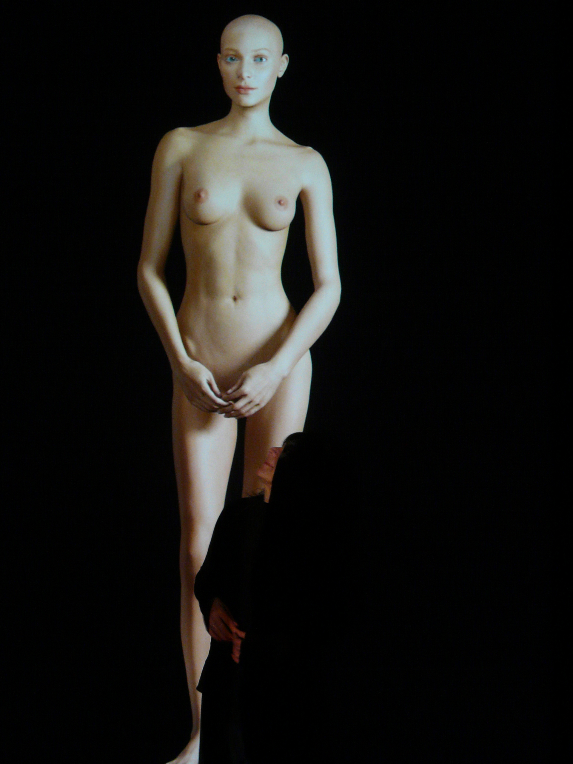 Kirsten Geisler in front of her virtual beauty MayaBrush